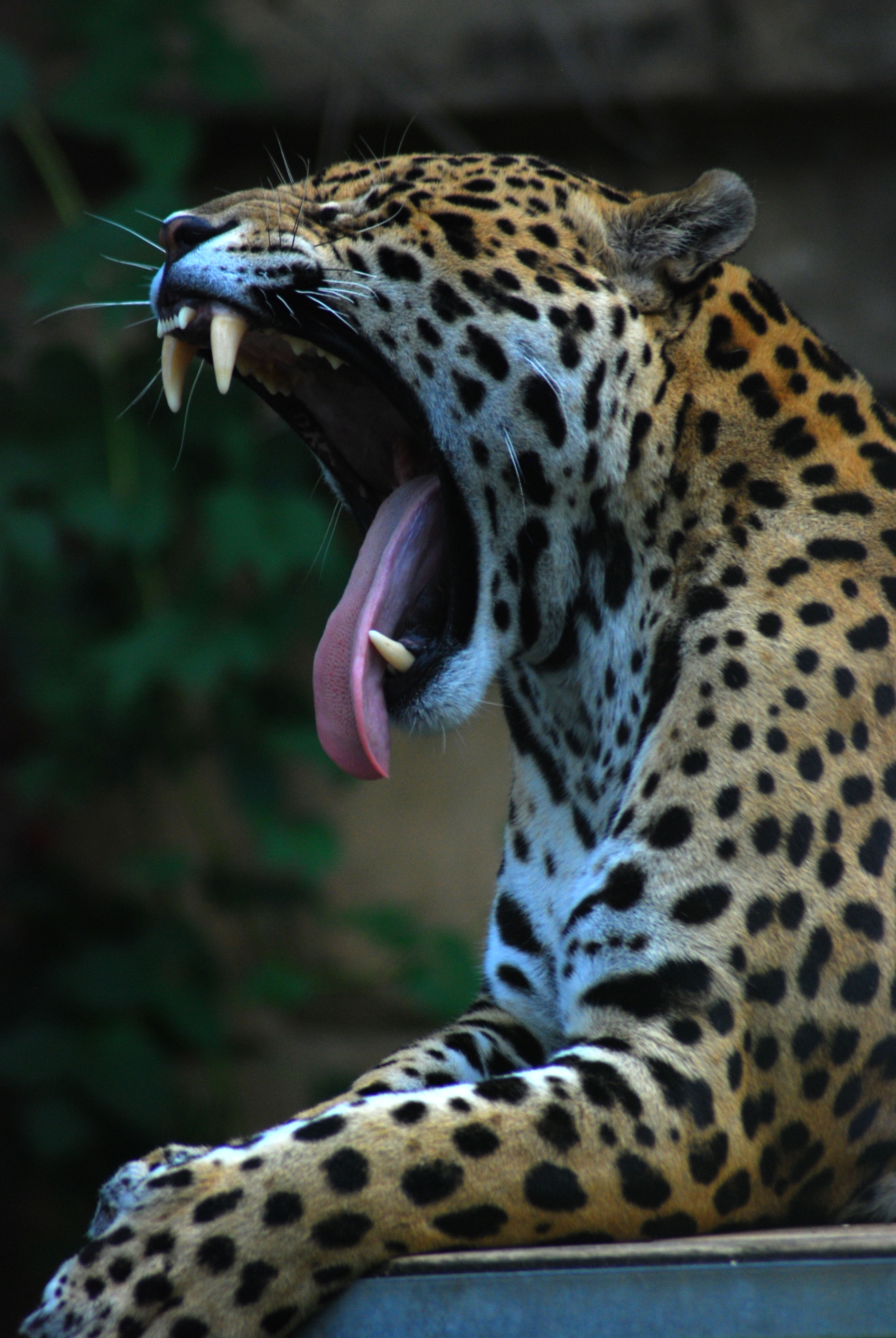 A Jaguar takes a yawn at the Toronto Zoo. The photo was modified slightly to increase the contrast and bring out the colours.